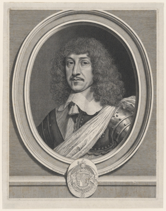 "Bernard de Foix de la Valette, Duke of Épernon (1592-1661)," by Robert Nanteuil, engraving, 13 3/4 in. x 10 3/4 in. Yale University Art Gallery, Gift of Edward B. Greene, B.A. 1900. Yale University, New Haven, Conn.